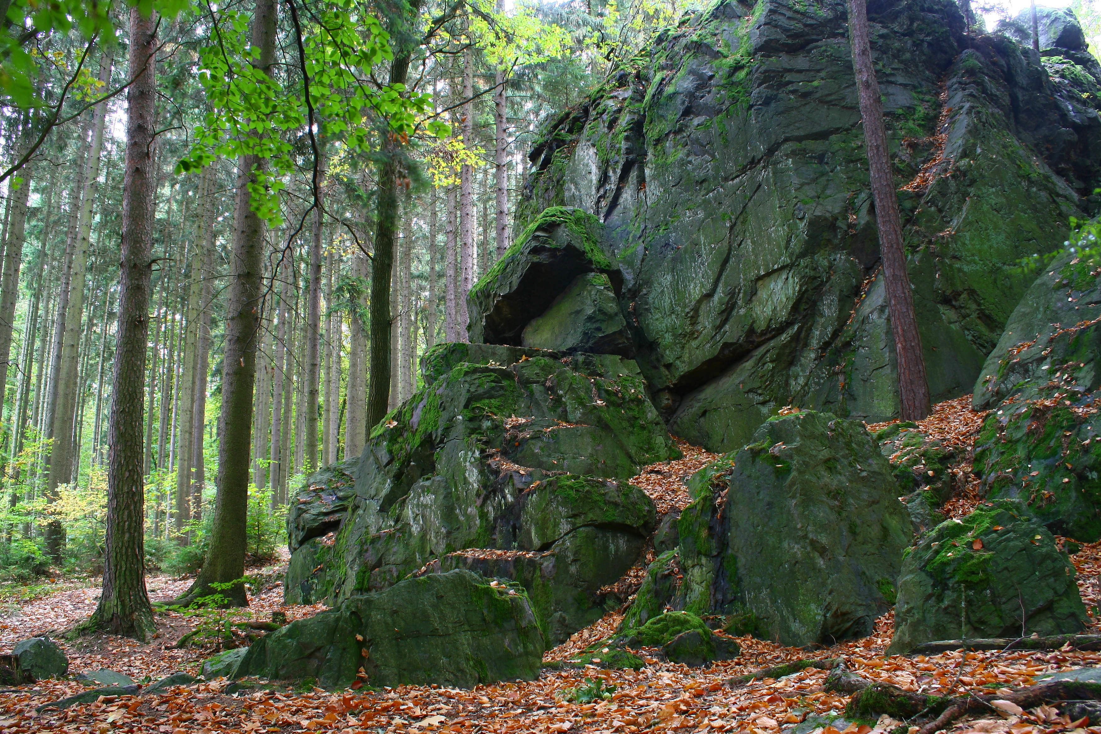 Natural monument Tupadelské skály situated near Klatovy Town, Klatovy District, Czech Republic